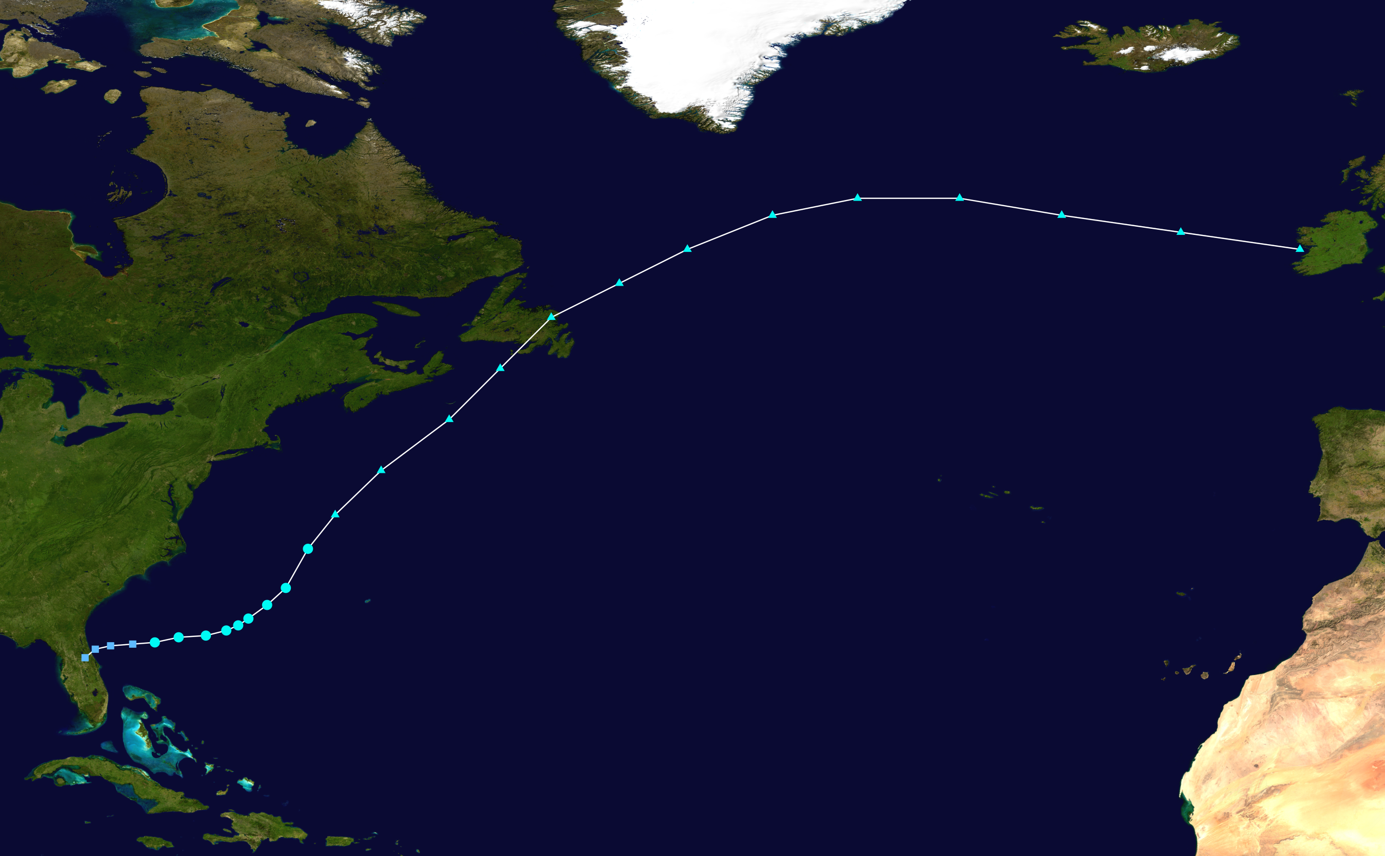 Track map of Tropical Storm Leslie of the 2000 Atlantic hurricane season. The points show the location of the storm at 6-hour intervals. The colour represents the storm's maximum sustained wind speeds as classified in the Saffir–Simpson scale (see below), and the shape of the data points represent the nature of the storm, according to the legend below. Saffir–Simpson scale Tropical depression≤38 mph≤62 km/h Category 3111–129 mph178–208 km/h Tropical storm39–73 mph63–118 km/h Category 4130–156 mph209–251 km/h Category 174–95 mph119–153 km/h Category 5≥157 mph≥252 km/h Category 296–110 mph154–177 km/h Unknown Storm type Tropical cyclone Subtropical cyclone Extratropical cyclone / Remnant low / Tropical disturbance